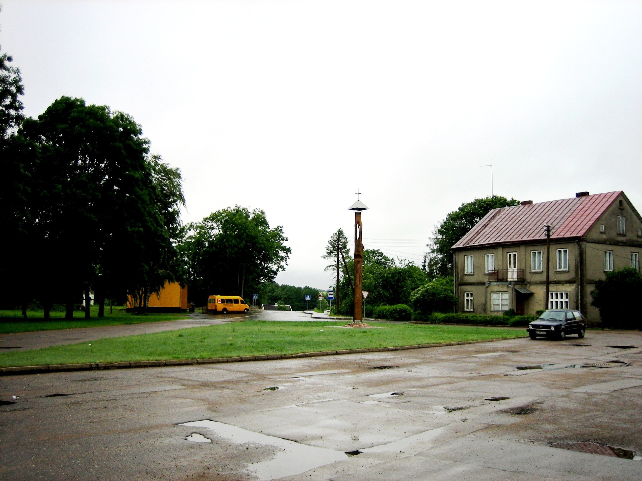 Batakiai central square